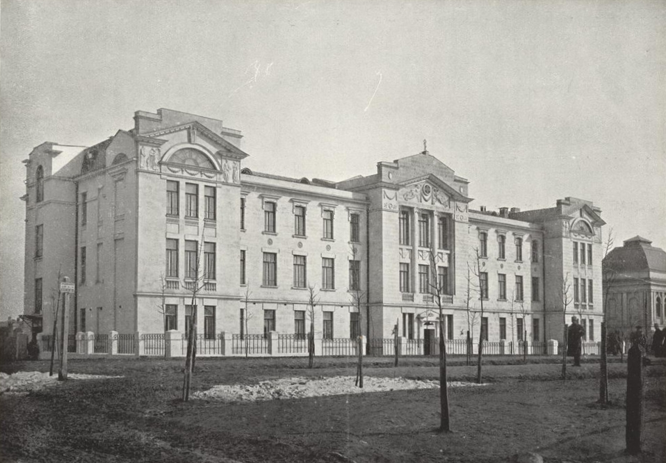 Kherson Alexeevskaya Community of Sisters of Mercy by Russian Red Cross Society at 1914 year (Year Report).